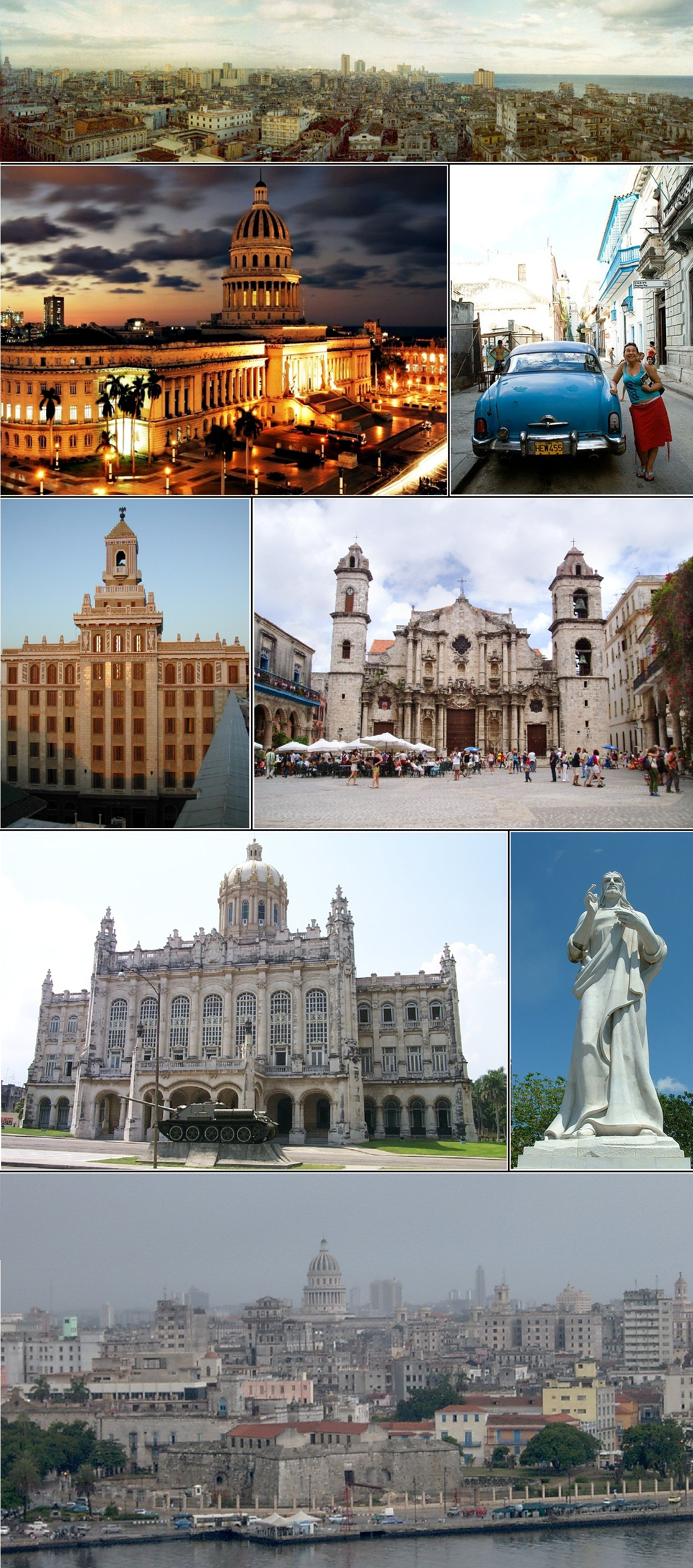 From top, clockwise: Panoramic view of La Habana (Havana) cityscape One of Havana's many classic automobiles Catedral de La Habana (Havana Cathedral) Christ of Havana statue Castillo de la Real Fuerza Museo de la Revolución ( Museum of the Revolution ), front facade view, central Havana. Bacardi Building El Capitolio (Capitol building)